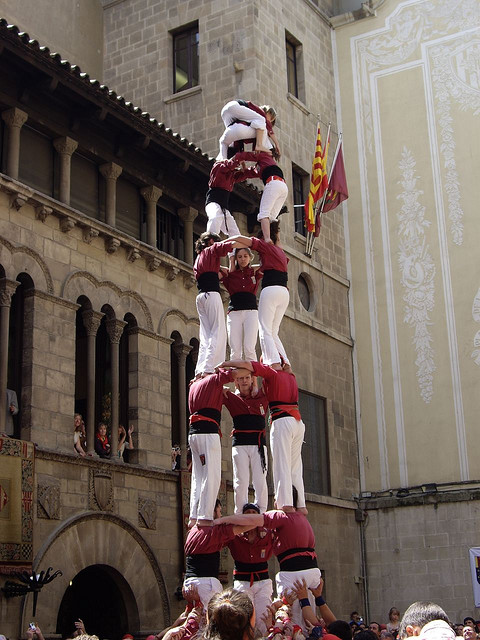 See where this picture was taken. [?]